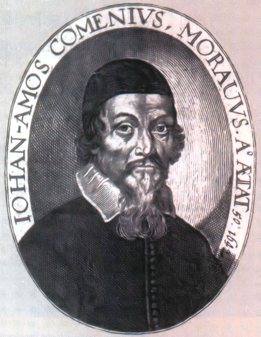 Portrait of Johann Amos Comenius